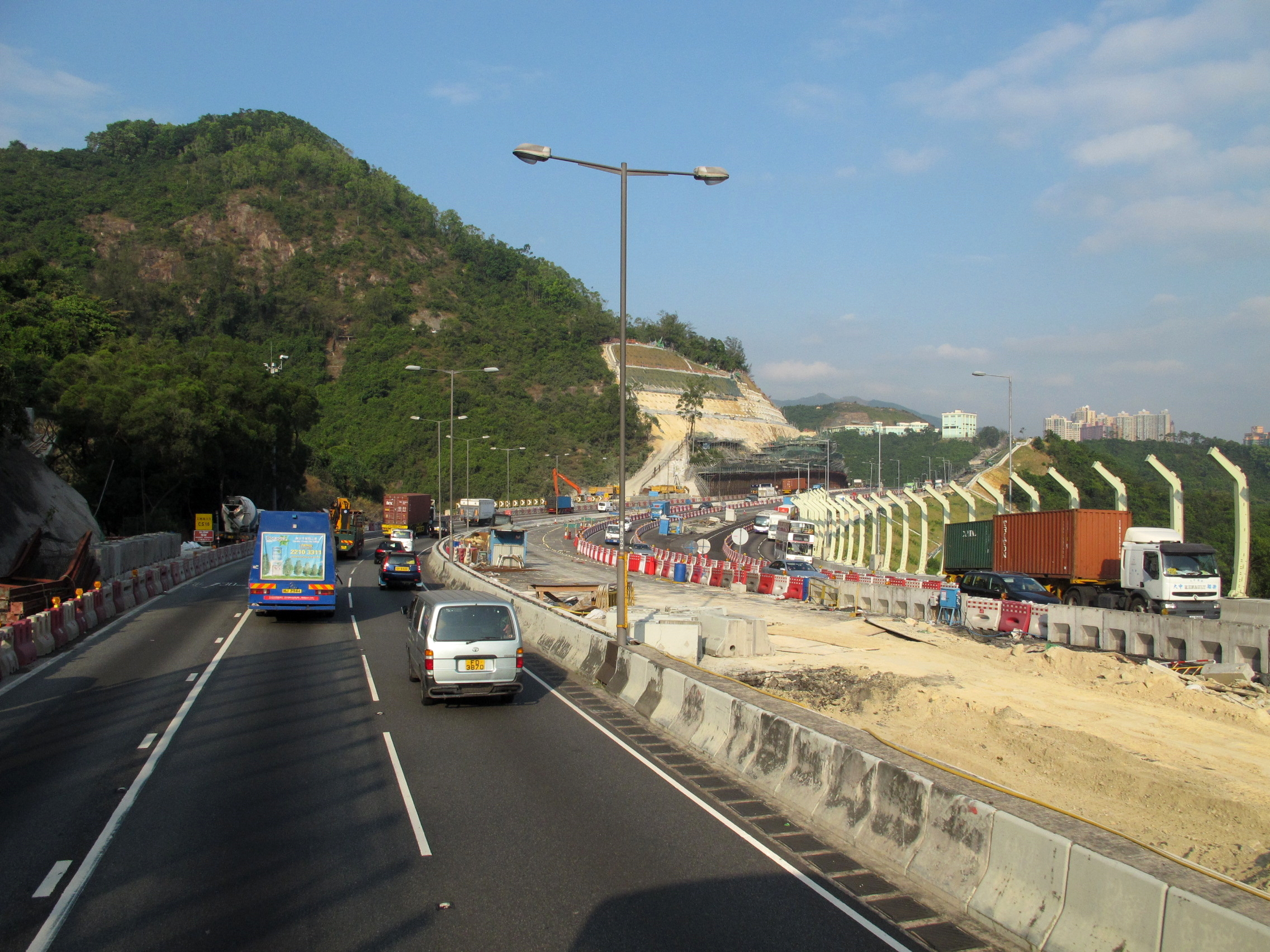 Tuen Mun Road Tsing Lung Tau Section